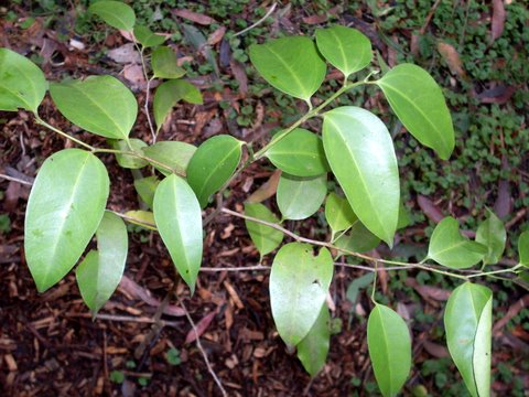 Celtis paniculata - juvenile at Cumberland State Forest